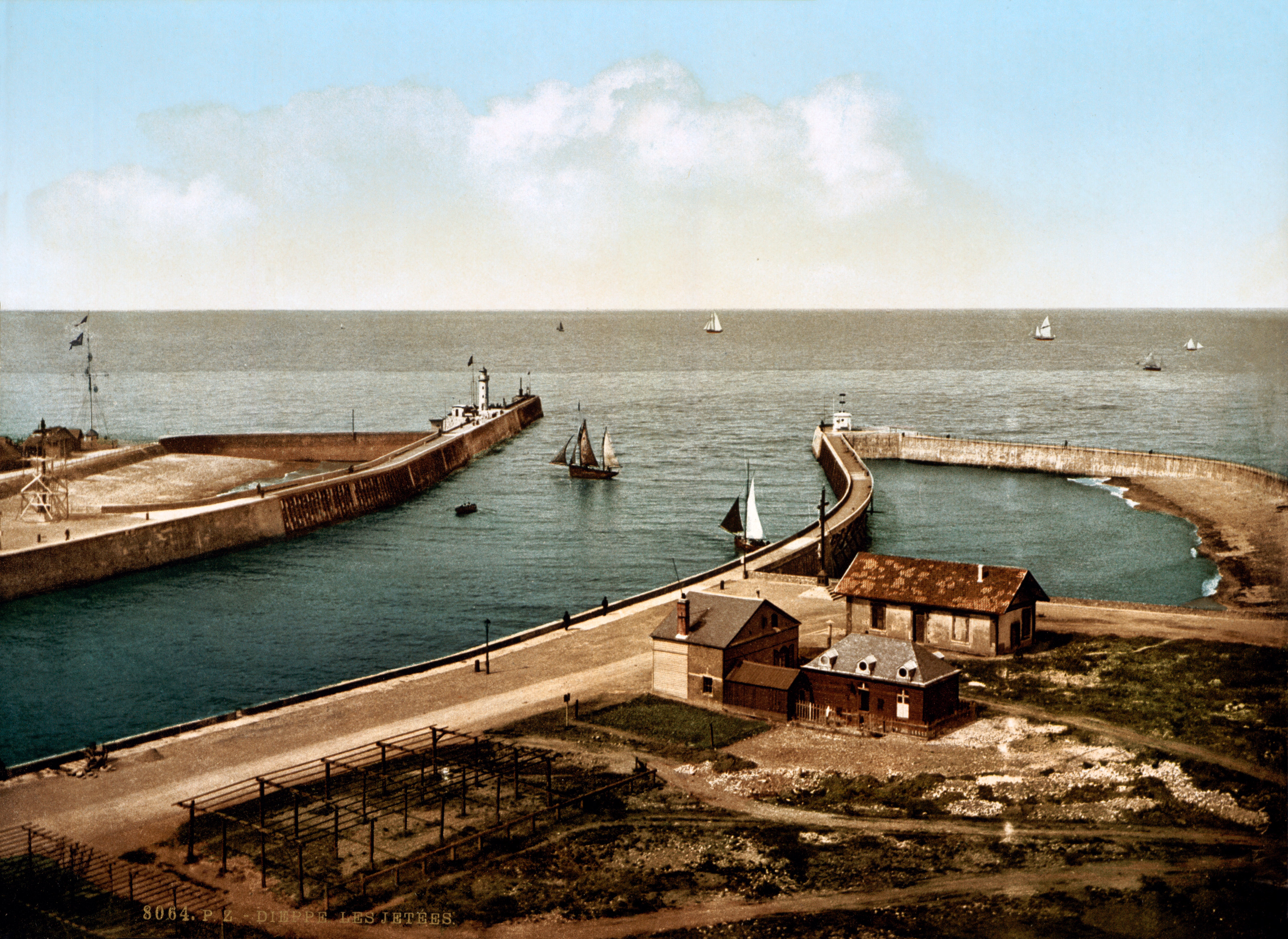 Photochrom print by Photoglob Zürich, between 1890 and 1900. From the Photochrom Prints Collection at the Library of Congress More photochroms from France | More photochrom prints [PD] This picture is in the public domain